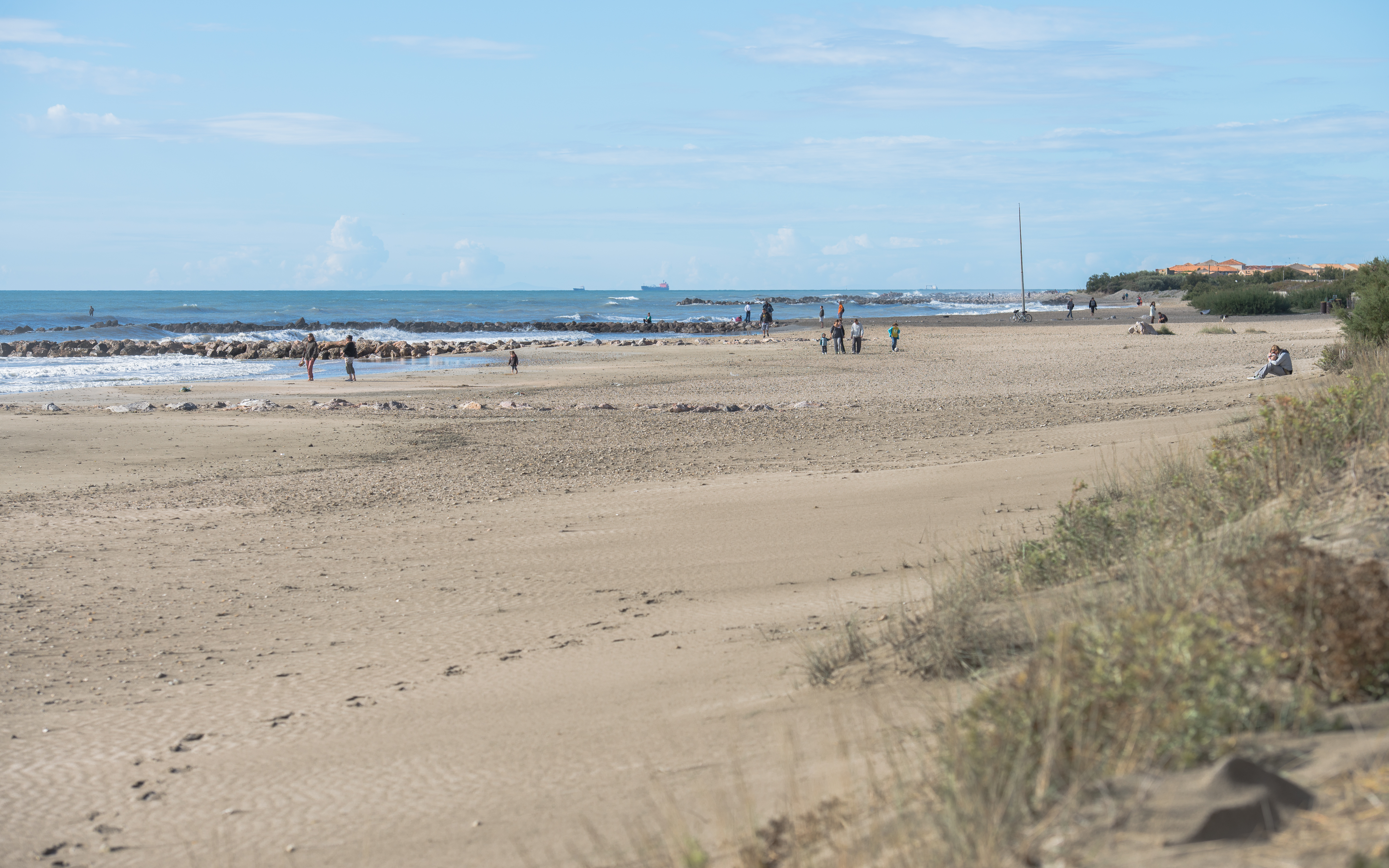 Frontignan-Plage, Frontignan, Hérault, France.